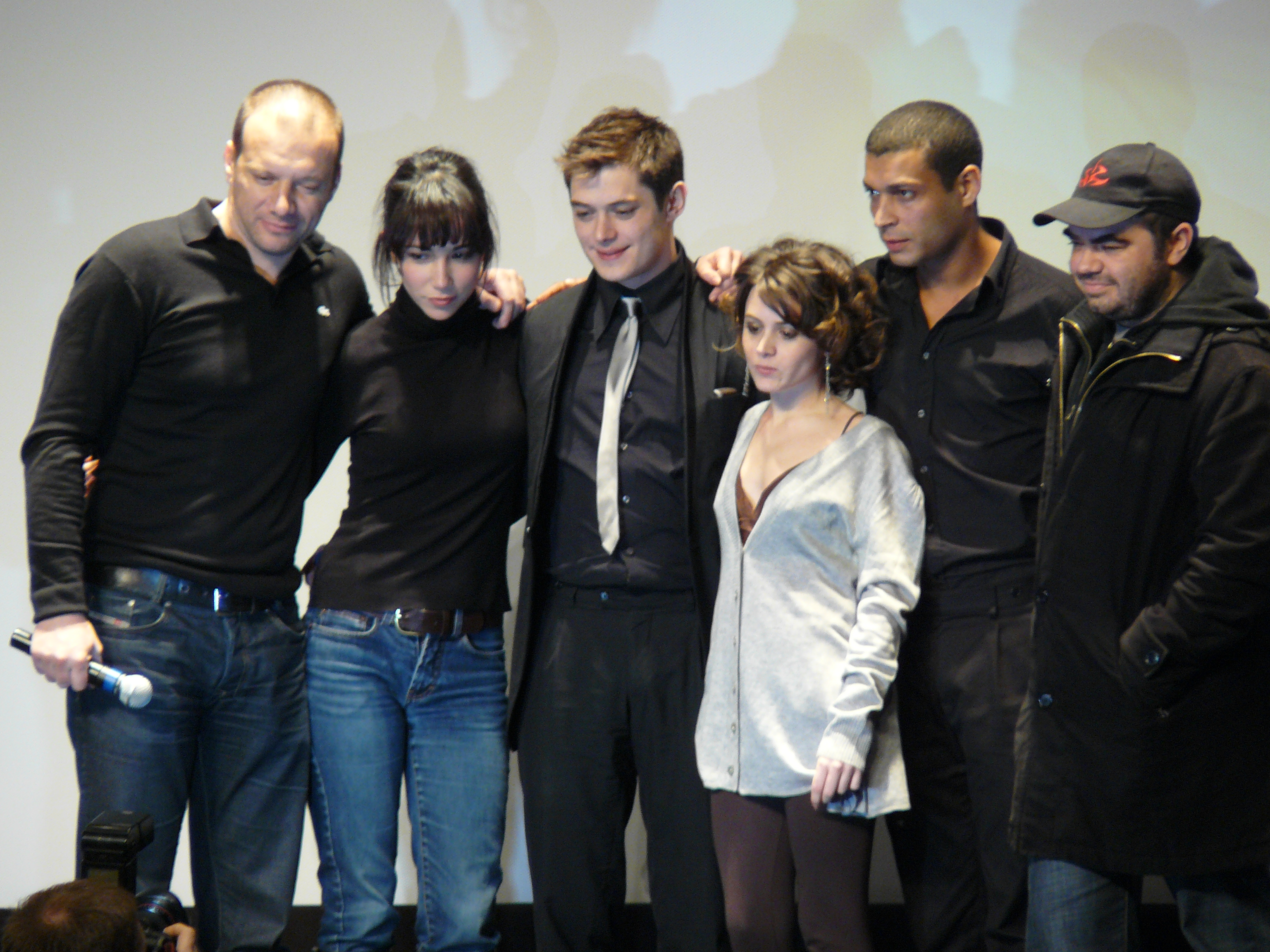 Cast of French film Frontière(s). Photo shot in Gerardmer during Fantastic'arts festival. From left to right : Samuel Le Bihan, Karina Testa, Aurélien Wiik, Maud Forget, Adel Bencherif, Xavier Gens